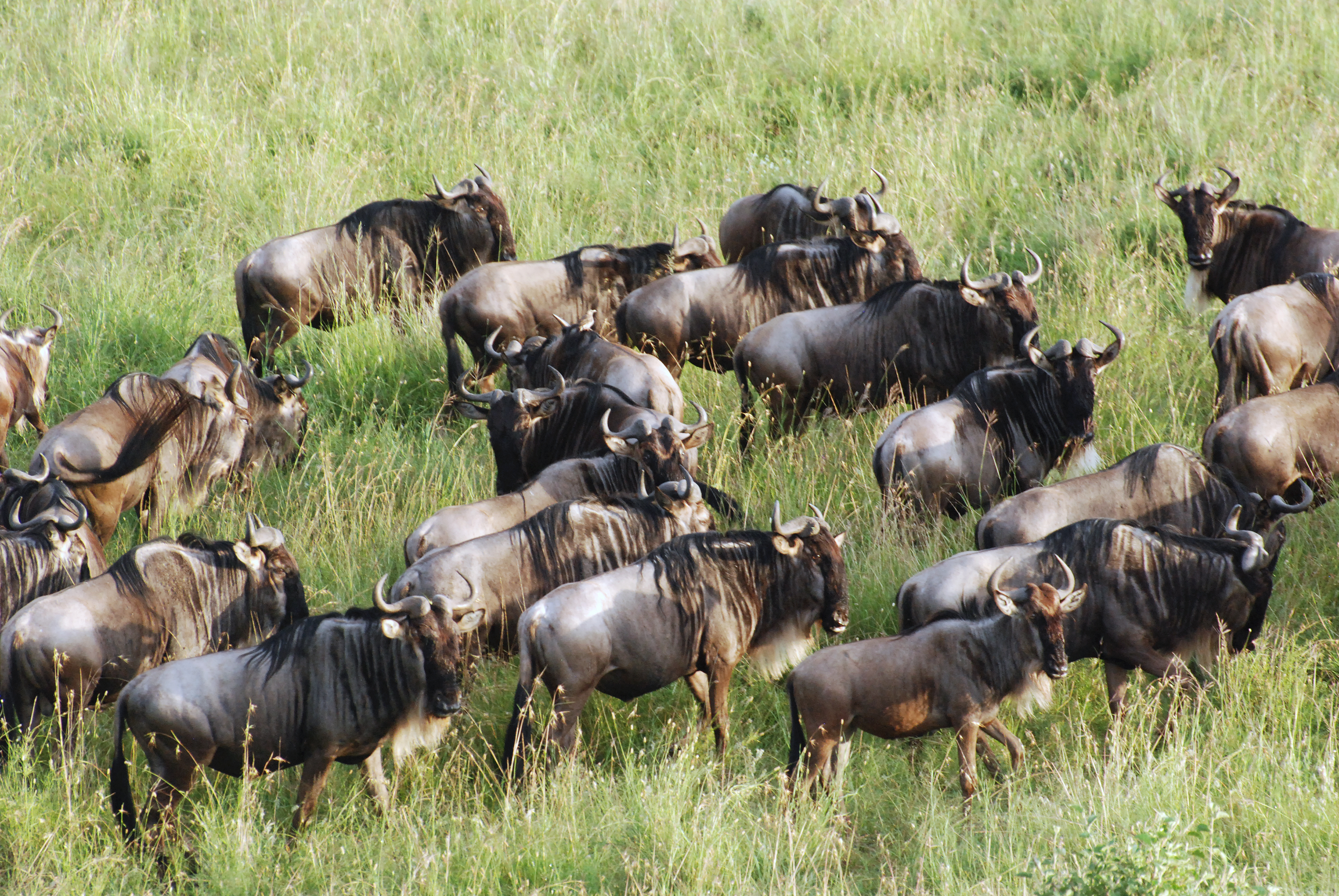 Wildebeest and the Great Migration